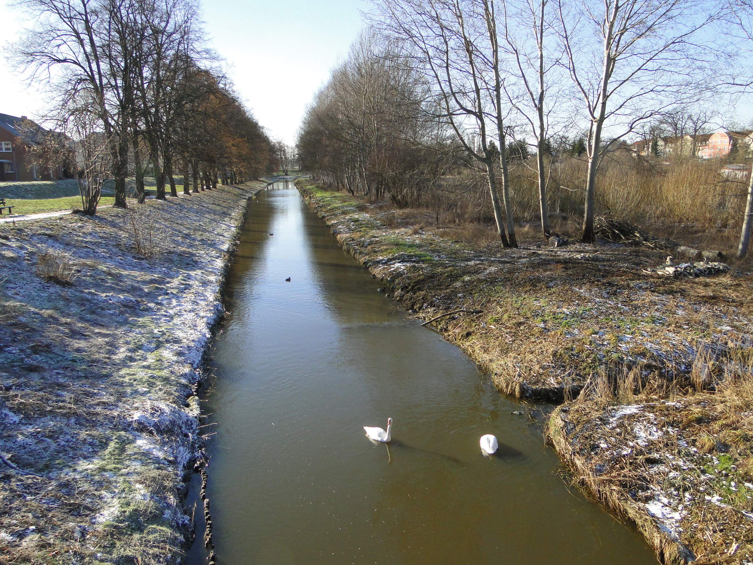 Swans on Datze river in Friedland, district Mecklenburg-Strelitz, Mecklenburg-Vorpommern, Germany